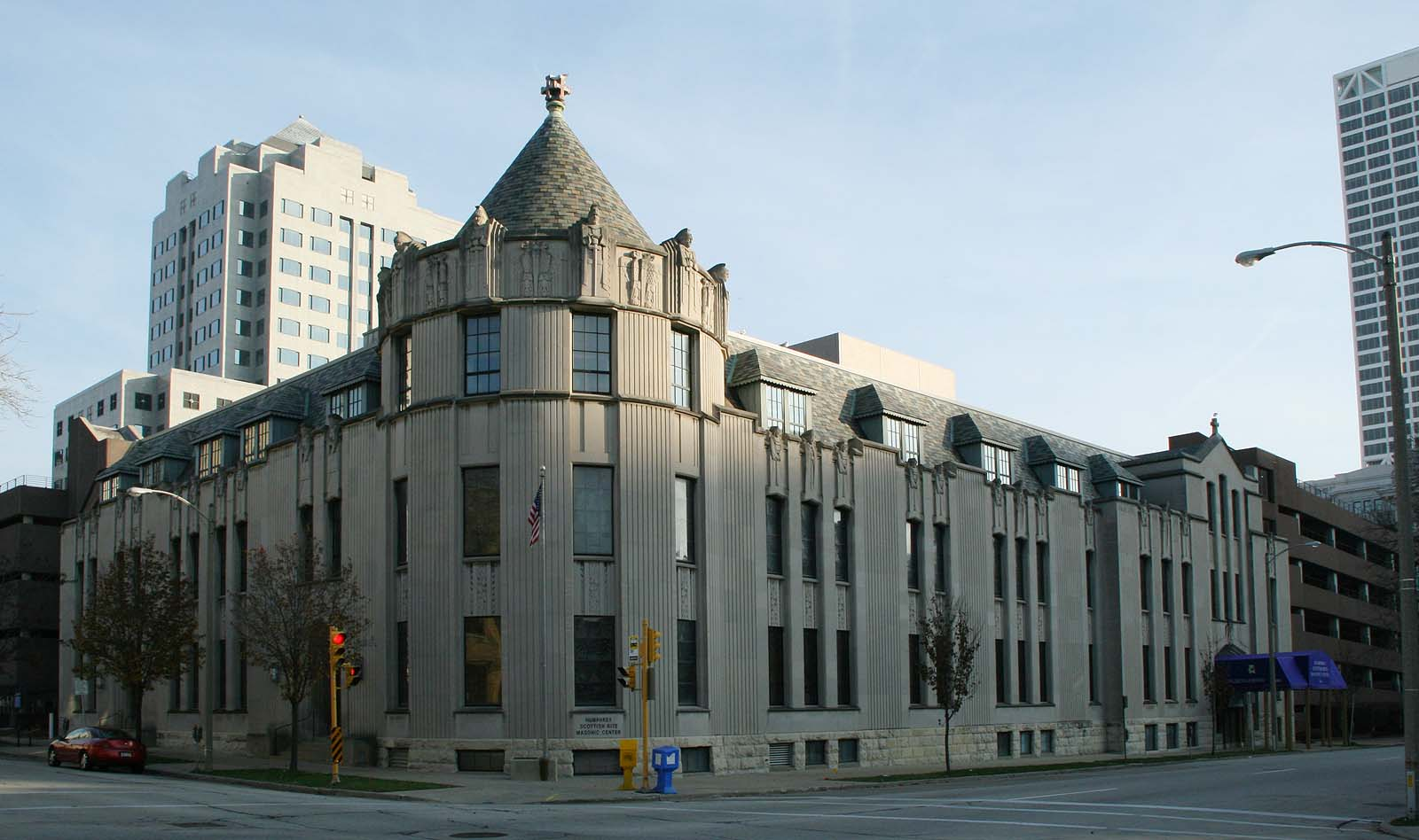 The Humphrey Scottish Rite Masonic Center, Milwaukee, Wisconsin. Listed on the National Register of Historic Places as the Wisconsin Consistory Building.